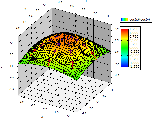 Plot of 3D surface - function (multivariable calculus) f(x, y) = cos(x)*cos(y) - plotted with software genius. There are vectors depicted (hand-drawn in GIMP), representing the direction of growth - gradient (red - quicker, blue - slower growth)